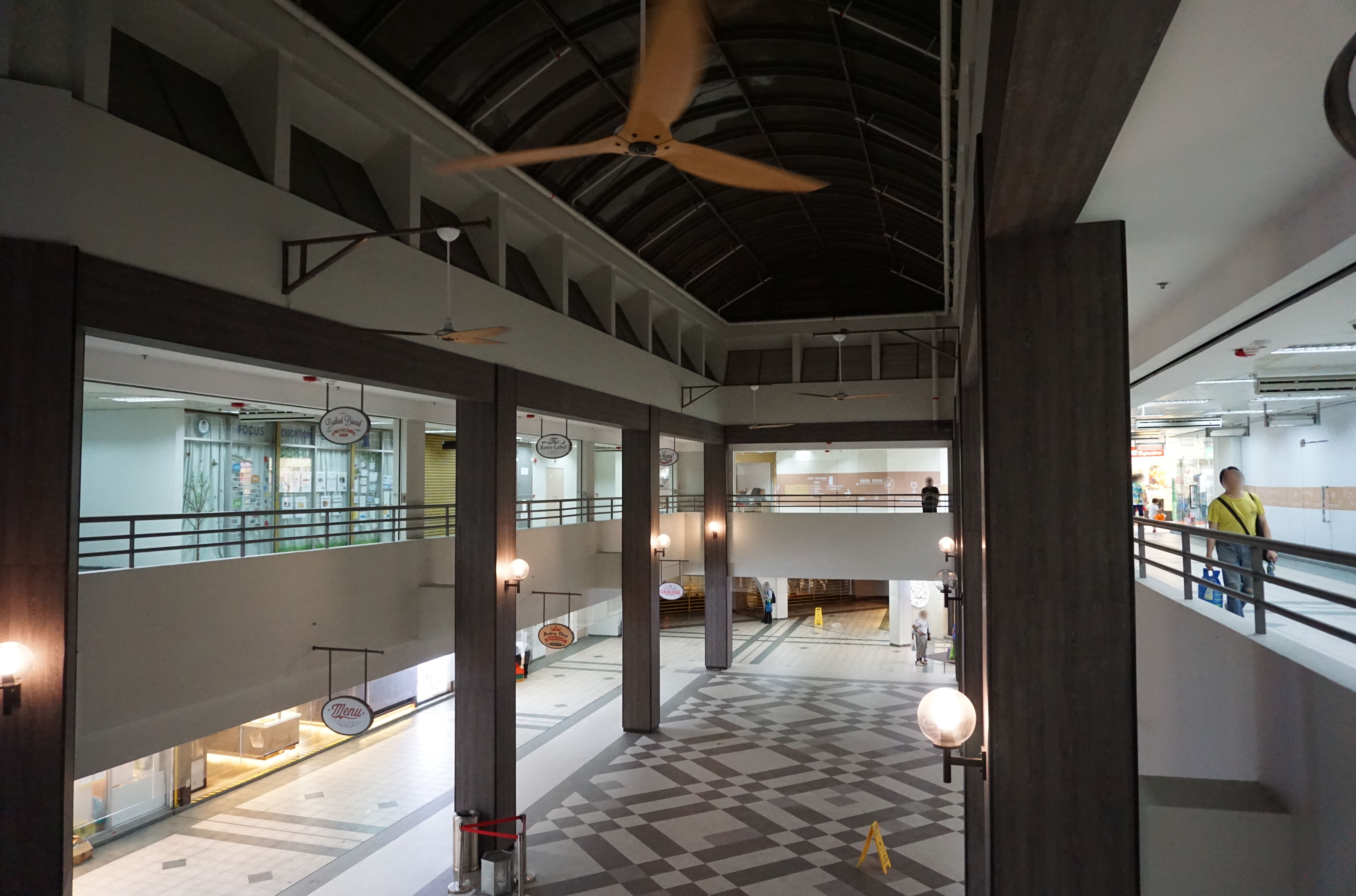 Lung Hang Shopping Centre in Tai Wai, Hong Kong.